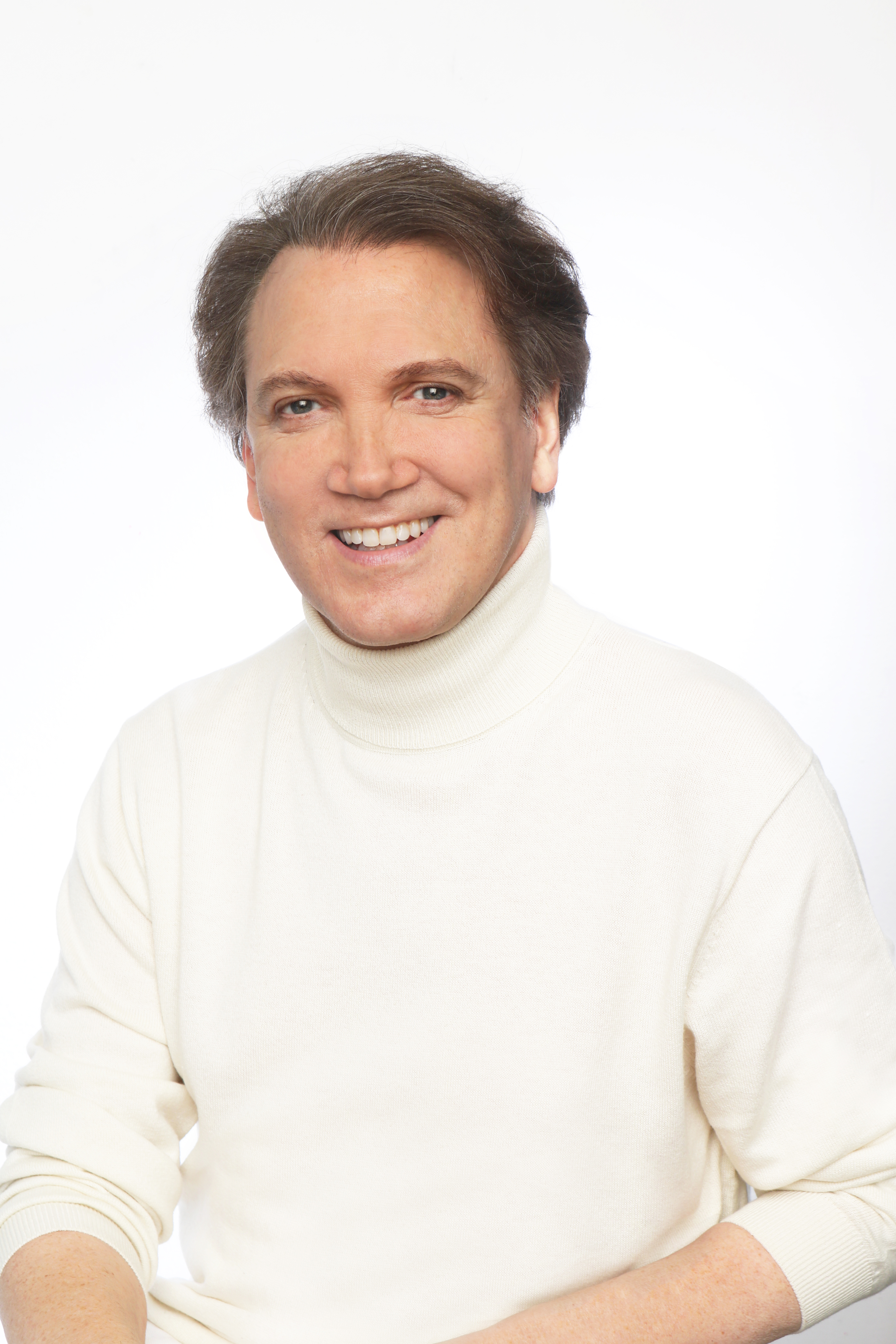 White turtleneck